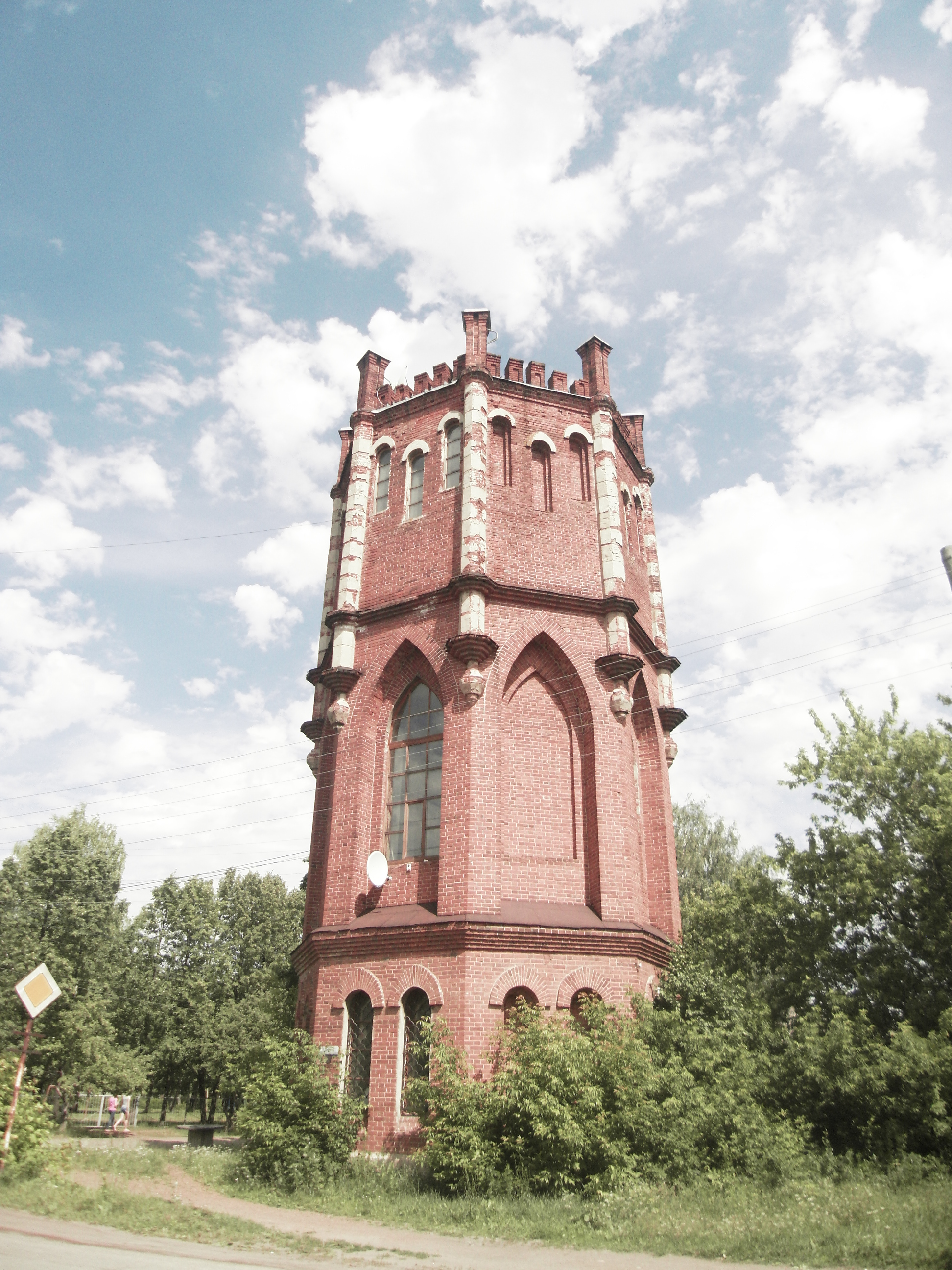 The water tower in Yaransk, Kirov region Russia